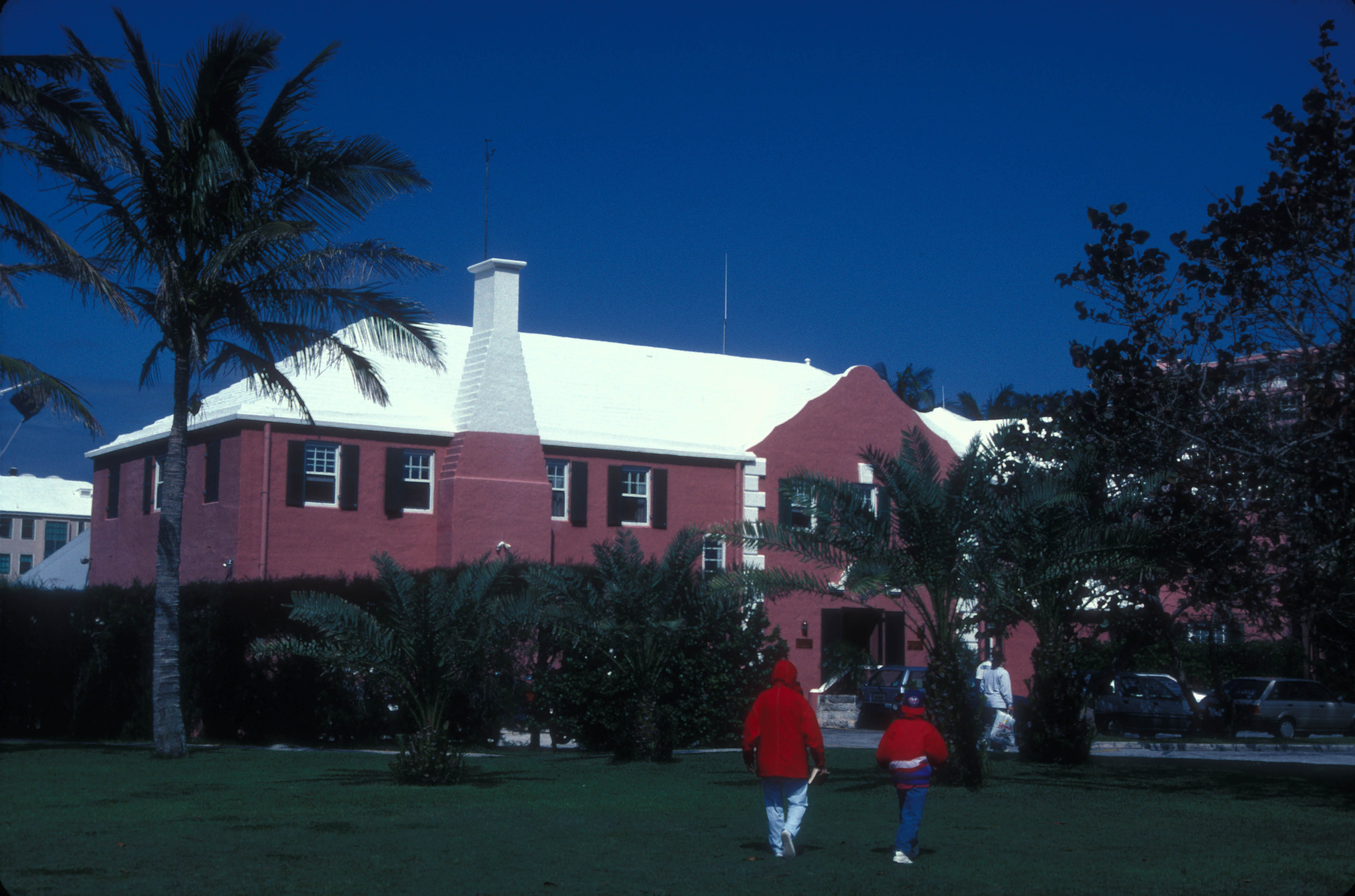 FOUNDED IN 1845; BUILDING BUILT IN 1930; SPONSORS THE NEWPORT-BERMUDA YACHT RACE